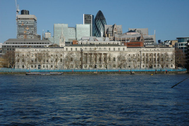 Custom House, London A custom house has stood on this spot overlooking the River Thames since 1272, the present building dates from 1825.